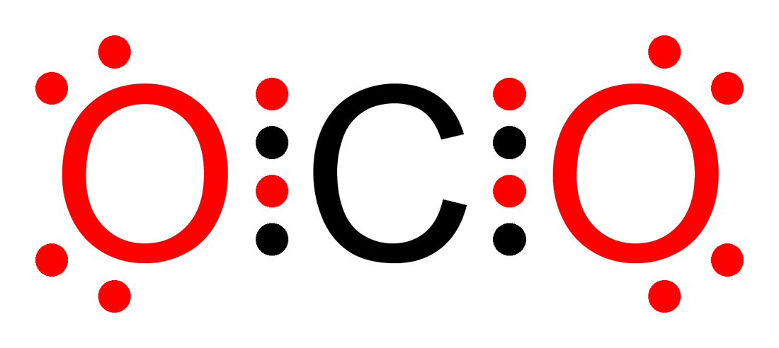 A Lewis structure of carbon dioxide, CO2. Structure drawn in ChemBioDraw Ultra 12.0.